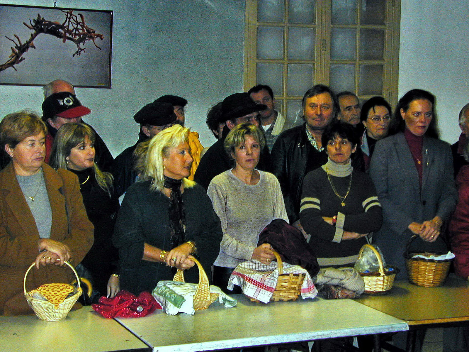 Aups, Var, truffles market begins first thursday of december